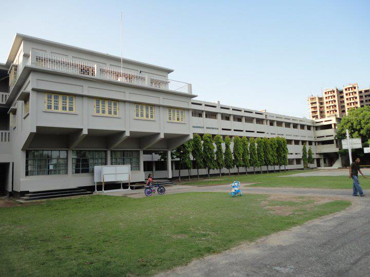 The front view, in the afternoon, this is the school section.